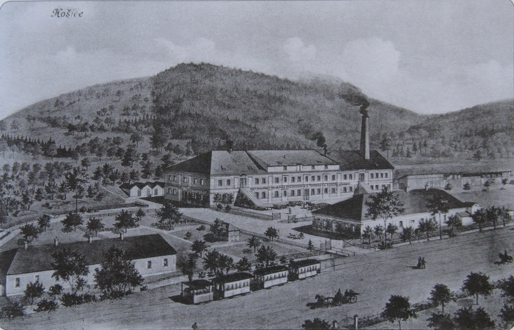 Factory in Košice, the End of 19th century